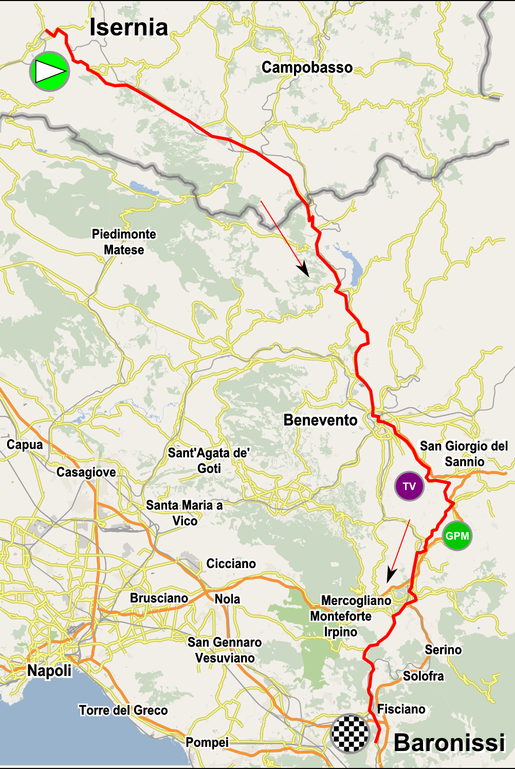 Map of stage 7 of Giro donne 2017.